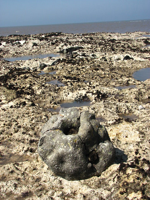 Paramoudra on chalk outcrop. Flint nodules such as the one seen here are called paramoudras, also known as pot stones. These large nodules originally had a central core filled with chalk. Once exposed, the soft chalk is quickly washed out by wave action, leaving a large hole. One can occasionally spot pot stones in gardens where they serve as natural planters. – The chalk layer is only visible at low water. It is composed of calcium carbonate from the remains of microscopic marine organisms that once lived in a warm shallow sea which covered this area between 62 and 132 million years ago. Its upper few centimetres are composed of fragments of rocks.